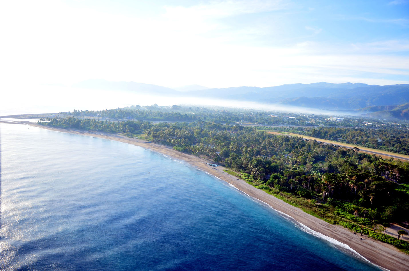 Coast of Dili